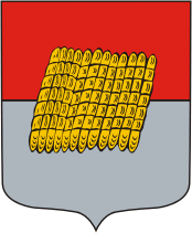 Dorogobuzh (Smolensk oblast), coat of arms (1780)